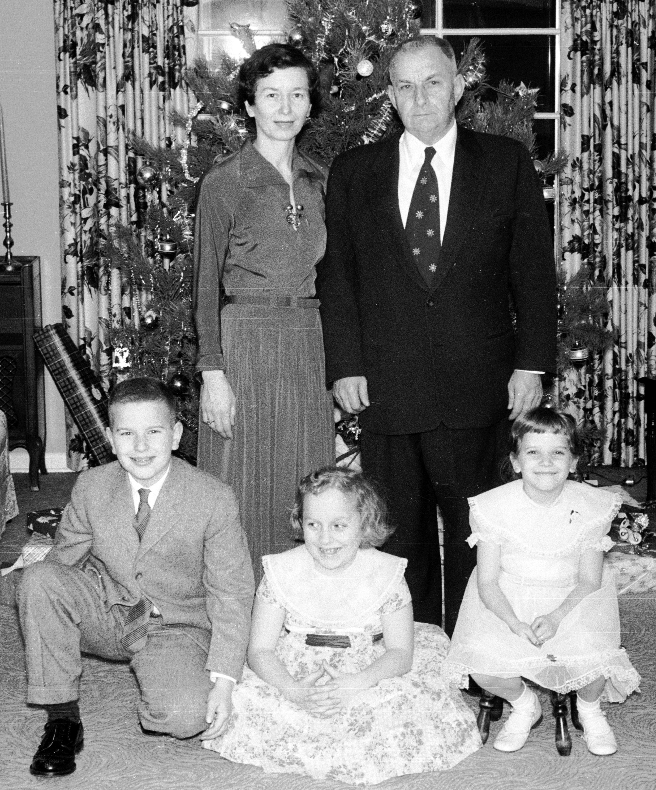 Rose and Harry G. Garland with their children in 1957.